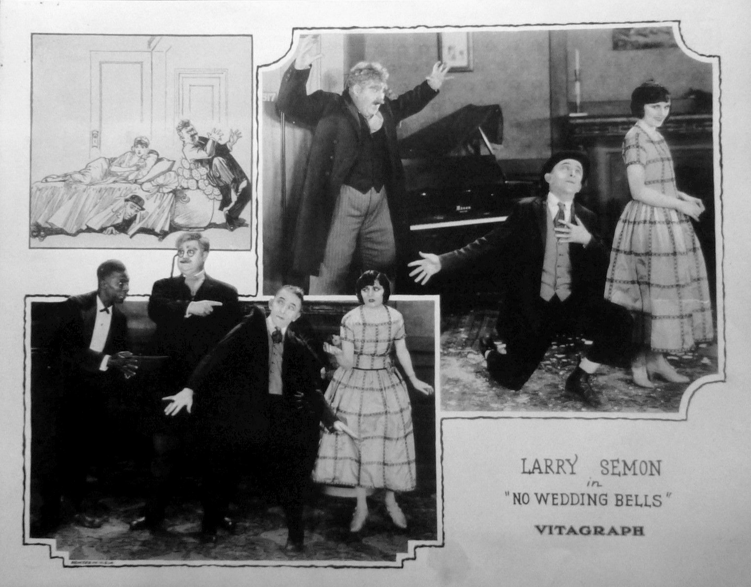 Lobby card for the 1923 film No Wedding Bells. The item has no copyright markings on it as can be seen in the links above. At bottom left is Printed in USA.